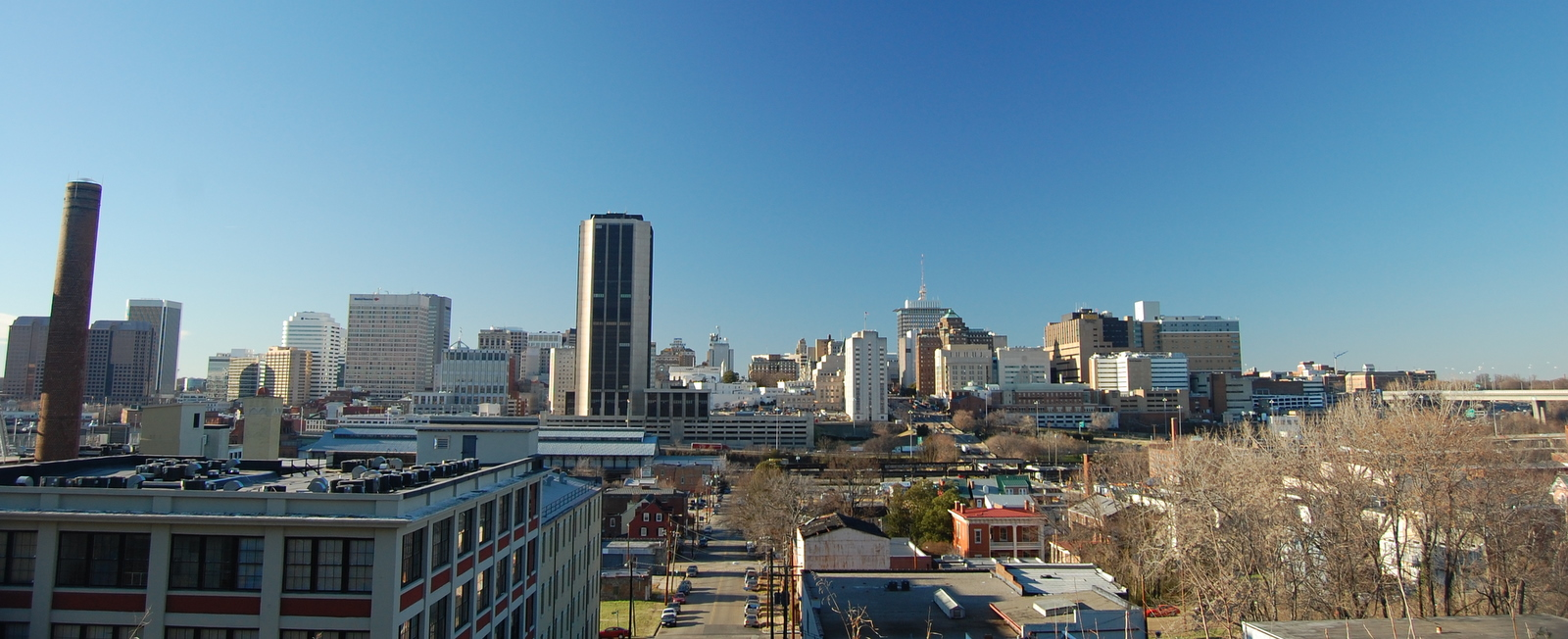 Panorama from Church Hill, Richmond, Virginia